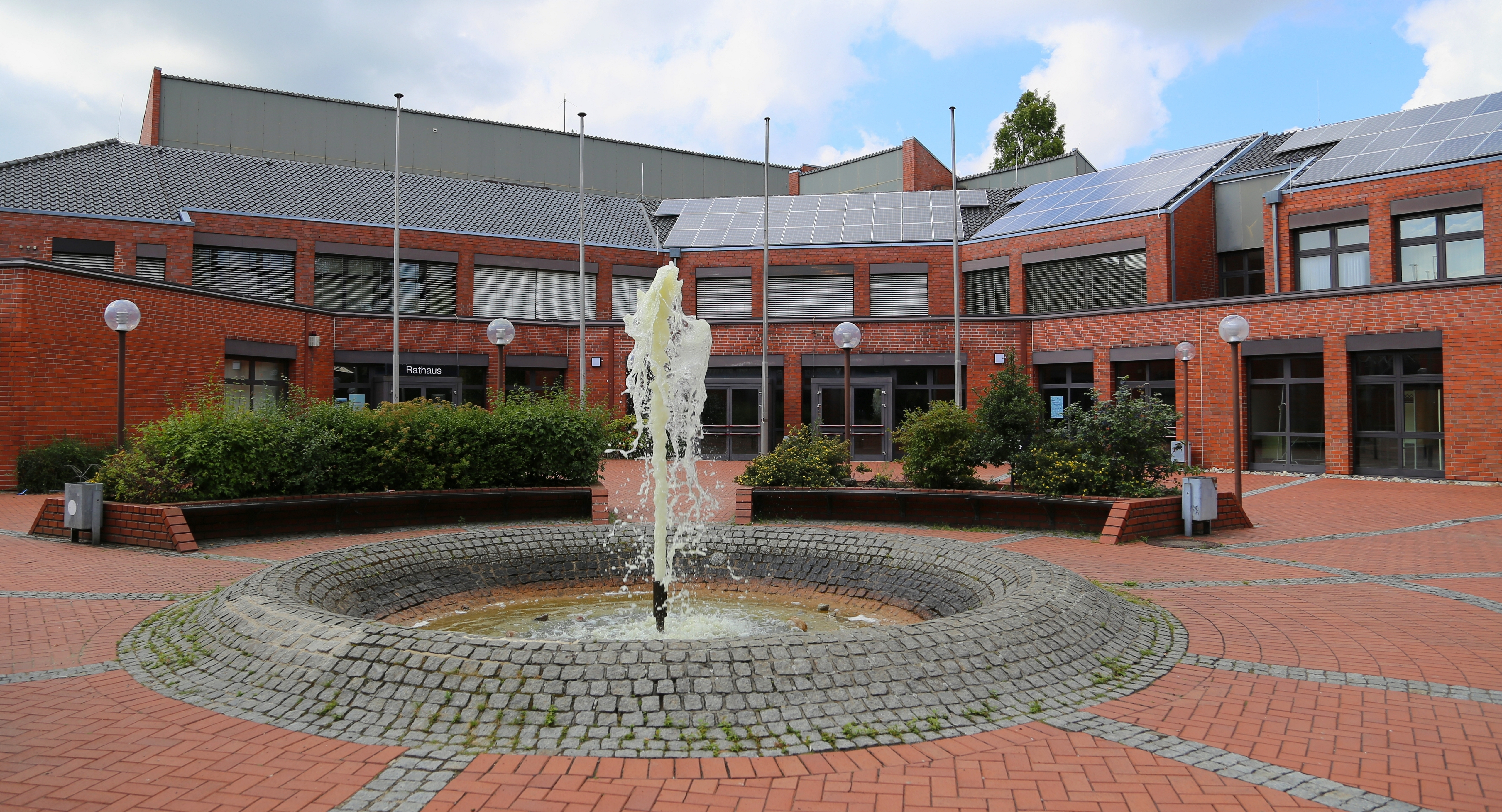 Courtyard fountain of the public service centre (Öffentliches Dienstleistungs-Zentrum, ÖDZ) in Recke, Kreis Steinfurt, North Rhine-Westphalia, Germany. The brick building in the background is Recke town hall, which also serves as a community centre.